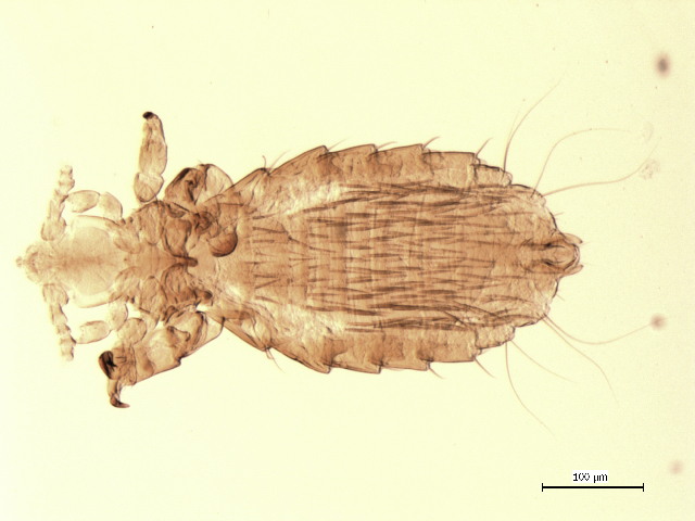 Hoplopleura acanthopus